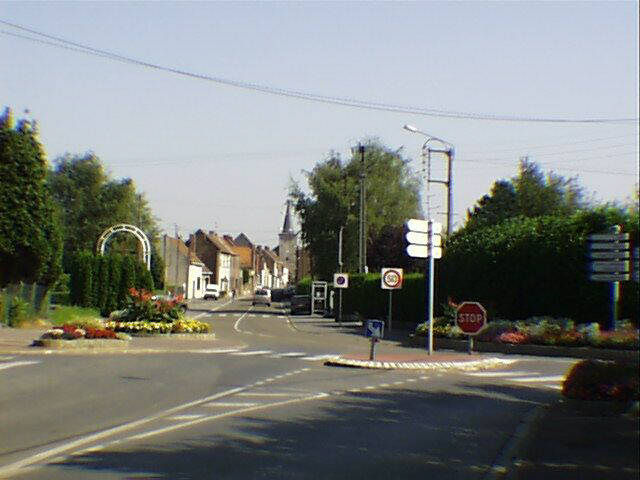 Nomain